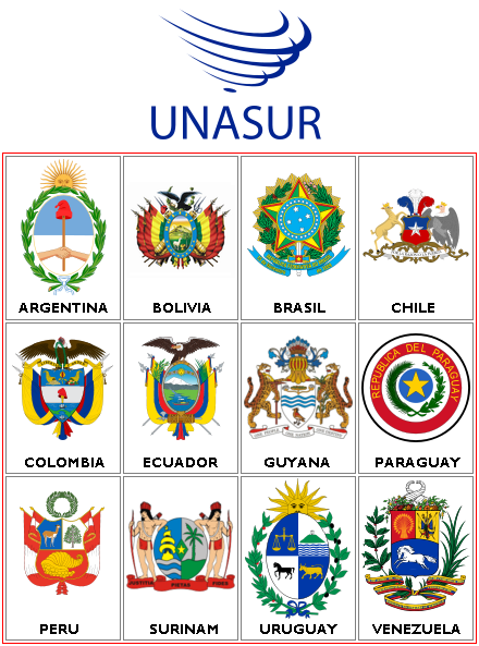 COA Escudos from Unasur countries.